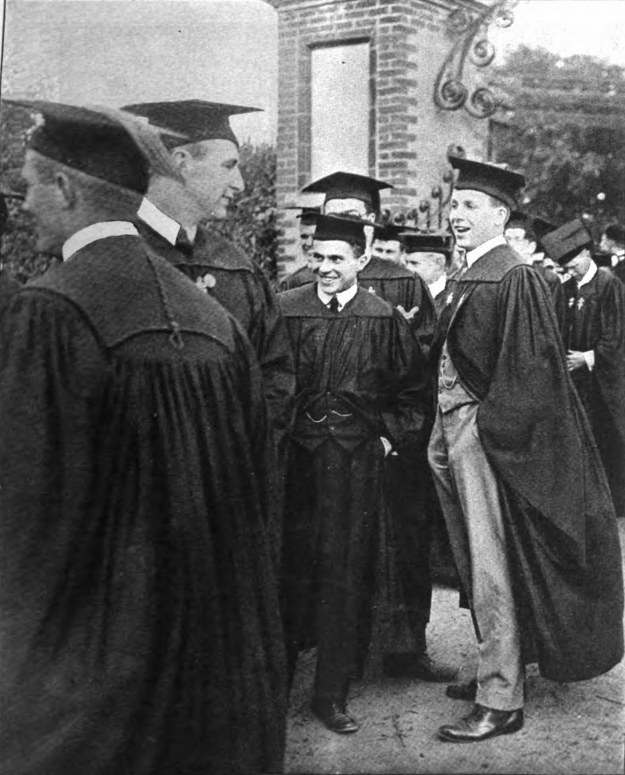 Photograph of Lionel de Jersey Harvard (3 June 1893 – 30 March 1918, standing right), "the only Harvard to attend Harvard", at Harvard's 1915 Commencement